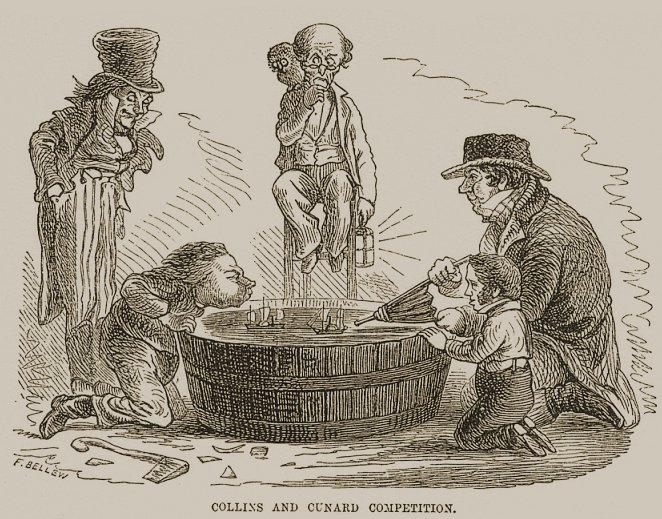 “Raising the Wind; or, Both Sides of the Story” "Collins and Cunard Competition". 1852 cartoon by Frank Bellew depicting two boys sailing boats in a tub. Uncle Sam watches disinterestedly to the left while John Bull actively intervenes on the right. Commentary on US/UK competition and government subsidies in trans-Atlantic shipping, specifically between US shipping magnate Edward Knight Collins and UK shipping magnate Samuel Cunard. A third figure watches with interest, the personification of the newspaper "The Lantern" (representing search for knowledge).